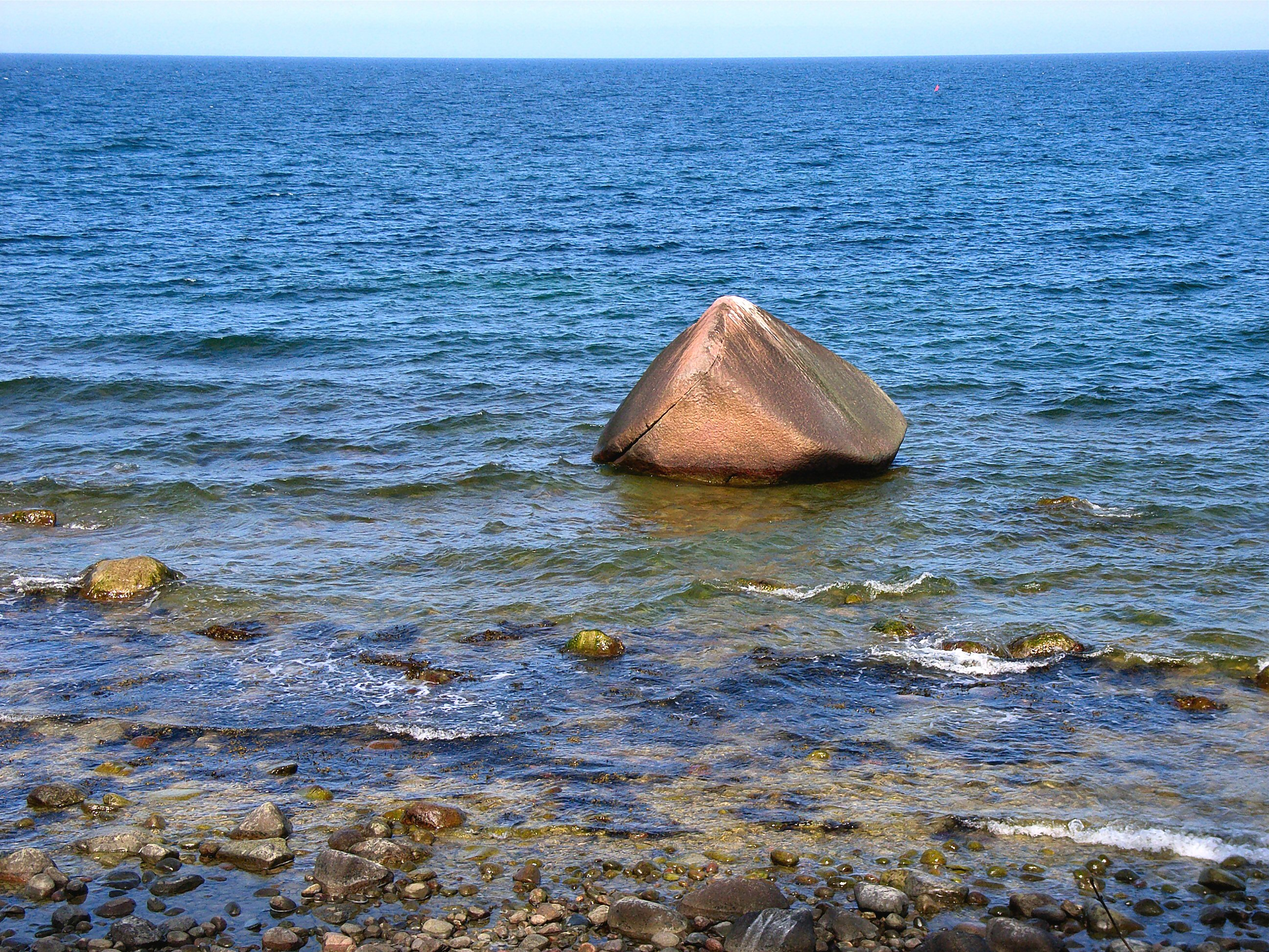 Swanstone near Lohme on island Rügen